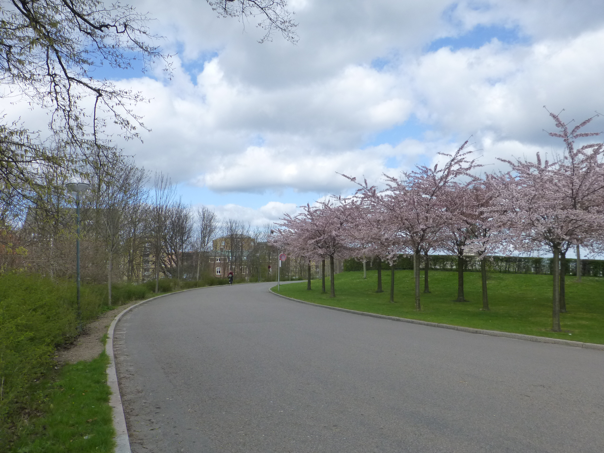 The street Langelinie Alle in Østerbro in Copenhagen. The sakura trees at the right is in full blossom.